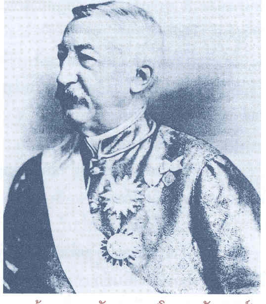 Gustave Rolin-Jaequemyns (1835 – 1902), Expert in international law and Diplomat from Belgium. Instrumental in the Thai independence in the 19th century.